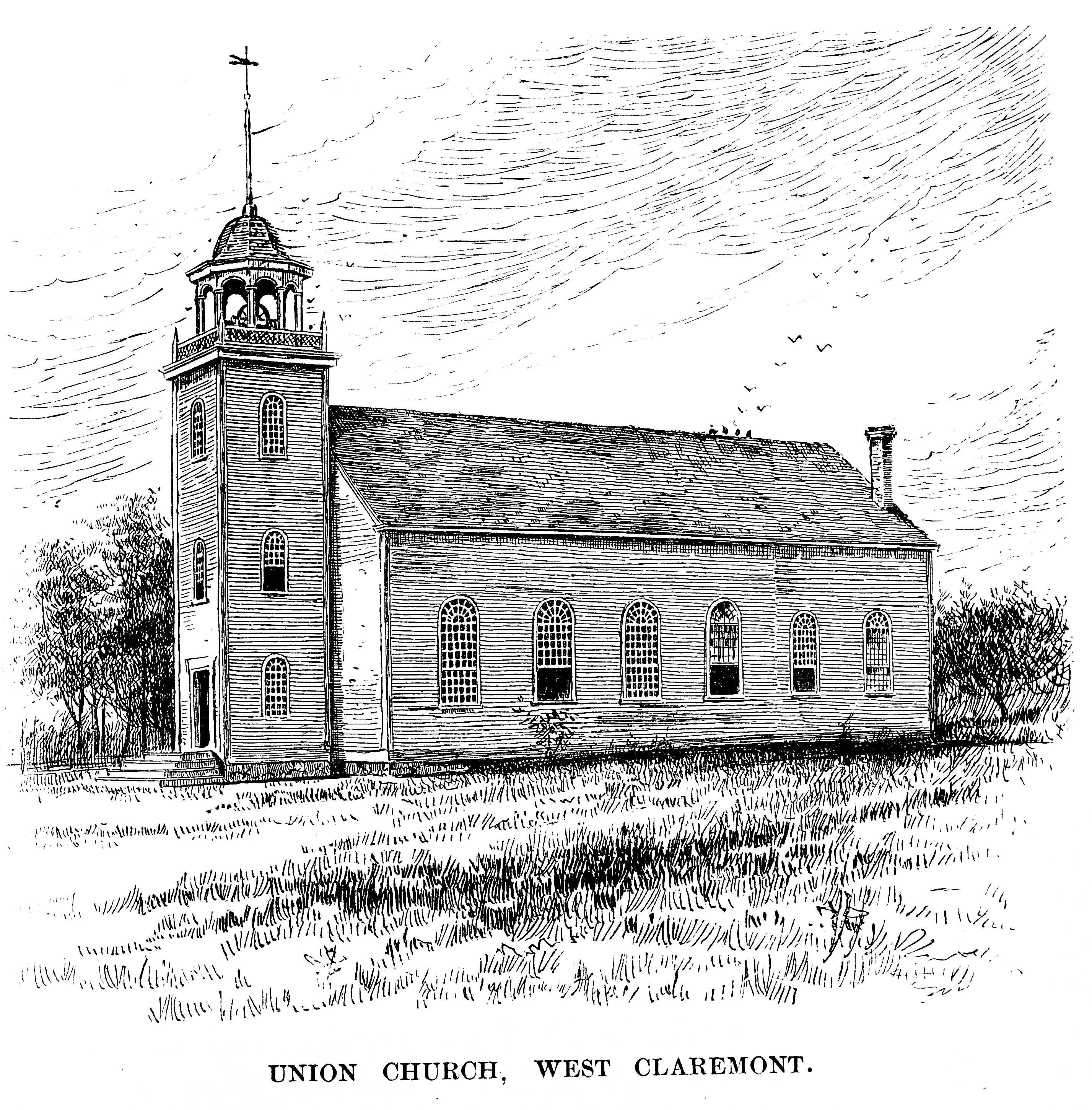 Union Episcopal Church, West Claremont, New Hampshire. Source: The History: American Episcopal Church 1587-1883 by William Stevens Perry, Vol 1 (1885) page 581